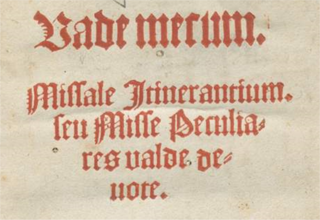 Extract from the title page of a late medieval "pocket book" missal for travelling priests, first printed by Heinrich Quentell in Cologne 1500; the present edition was printed 1510 in Nuremberg.